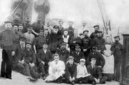 The crew of the Mona's Isle, James Teare who became the captain later, is seated at the far left. The woman in the center of the photo is Florence Helena Cowell at 18 and who did not sail when the ship, renamed the Ellan Vannin, sank in the Mersey eleven years later in 1909.